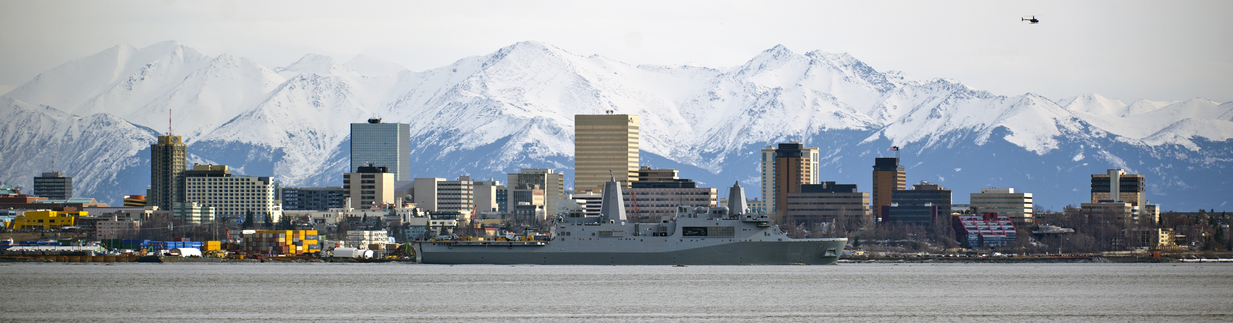 The USS Anchorage departing from its namesake port in May 2013. The vessel is framed by the city's downtown and the Chugach Mountain Range in the background.